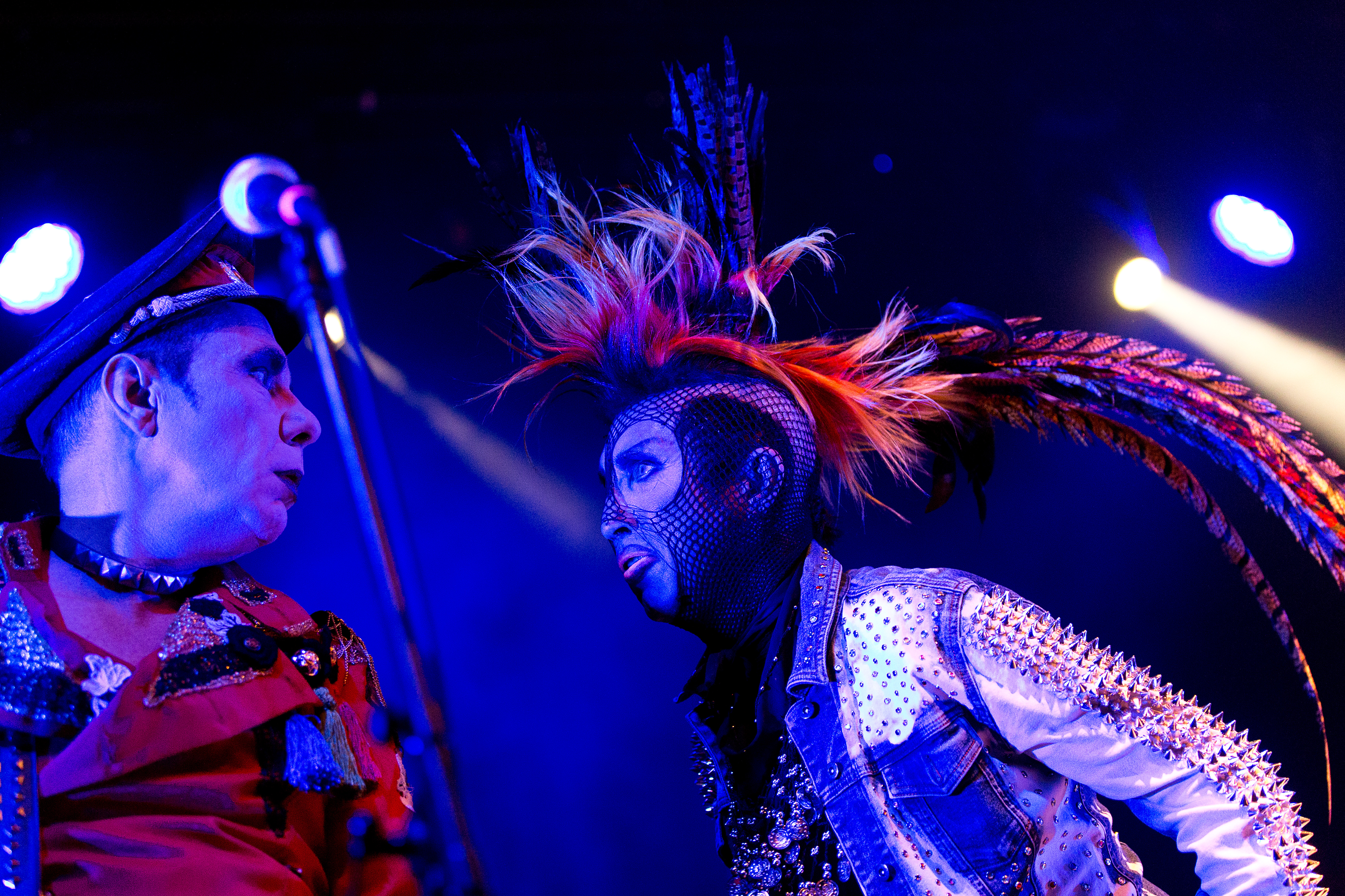 The English new wave and rock band Sigue Sigue Sputnik at the 25. Wave-Gotik-Treffen 2016 in Leipzig/Germany.